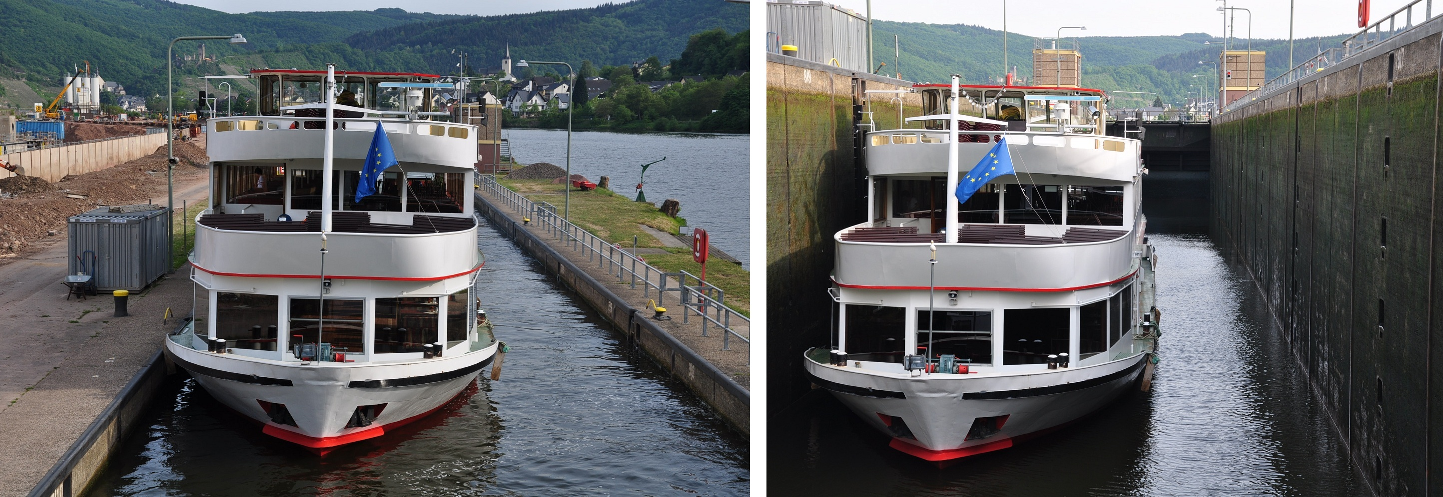 The locks at Bruttig-Fankel in the river Moselle have a rise of 7 meters (Cochem-Zell district, Rhineland-Palatinate, Germany).